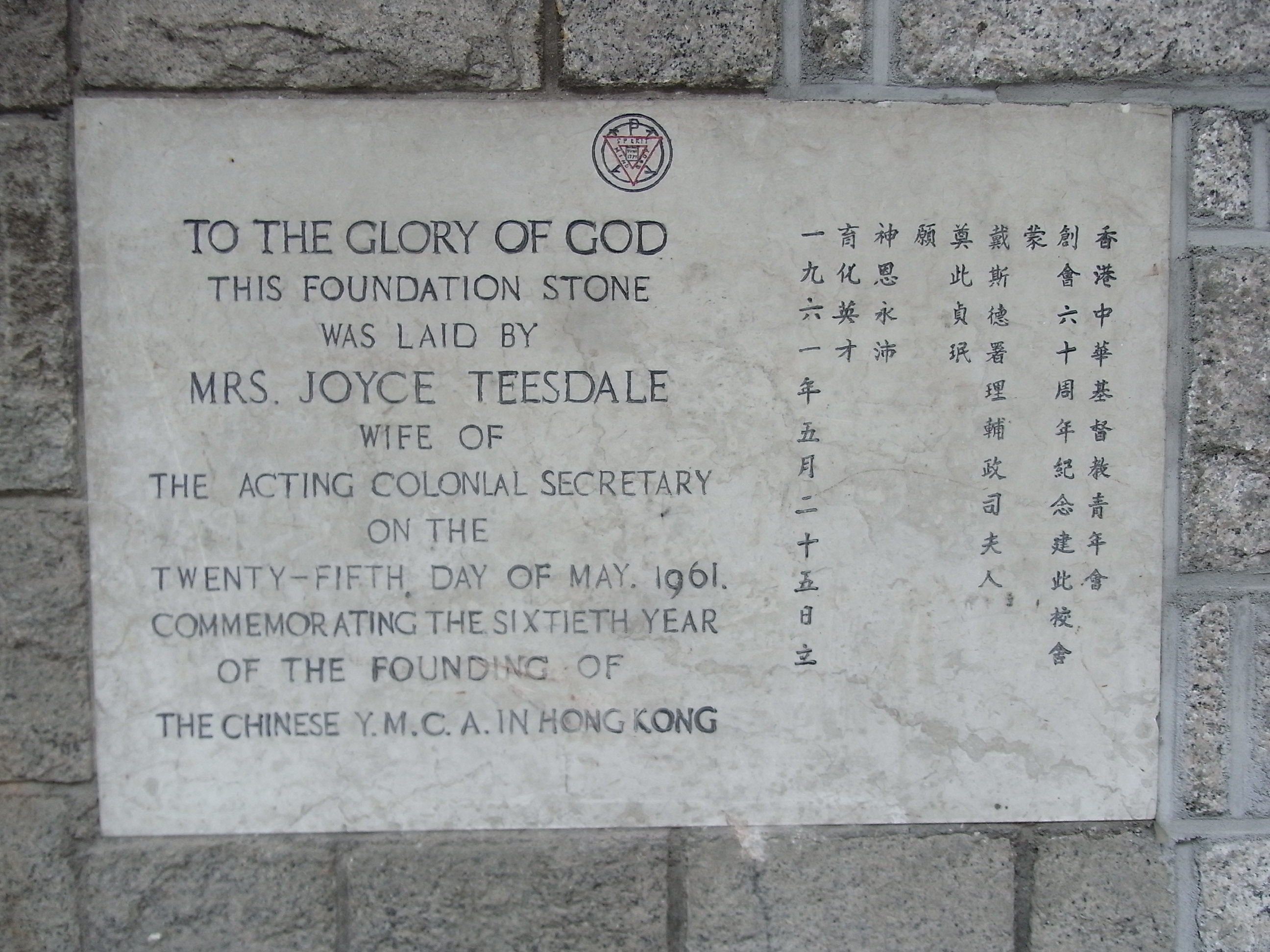 70 Bridges Street, Sheung Wan, Hong Kong